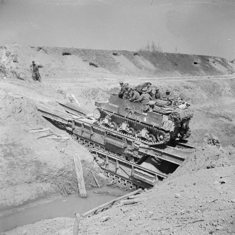 IWM caption : A Sexton 25pdr self-propelled gun crossing the River Senio over two Churchill Ark bridging tanks.